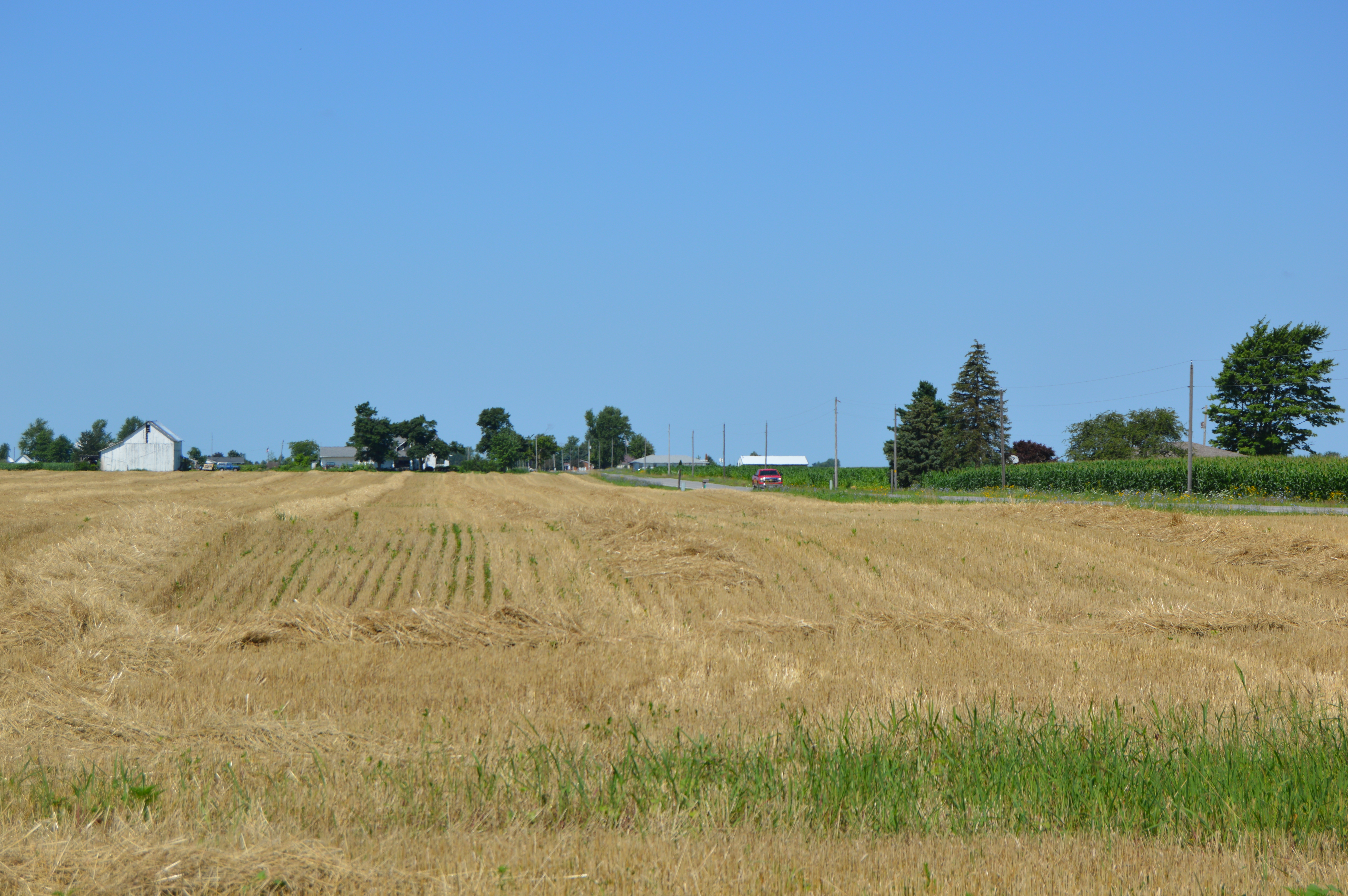 A harvested wheat field on the southern side of State Route 613, seen looking west from Road 7-D, southwest of Leipsic in southeastern Liberty Township, Putnam County, Ohio, United States.